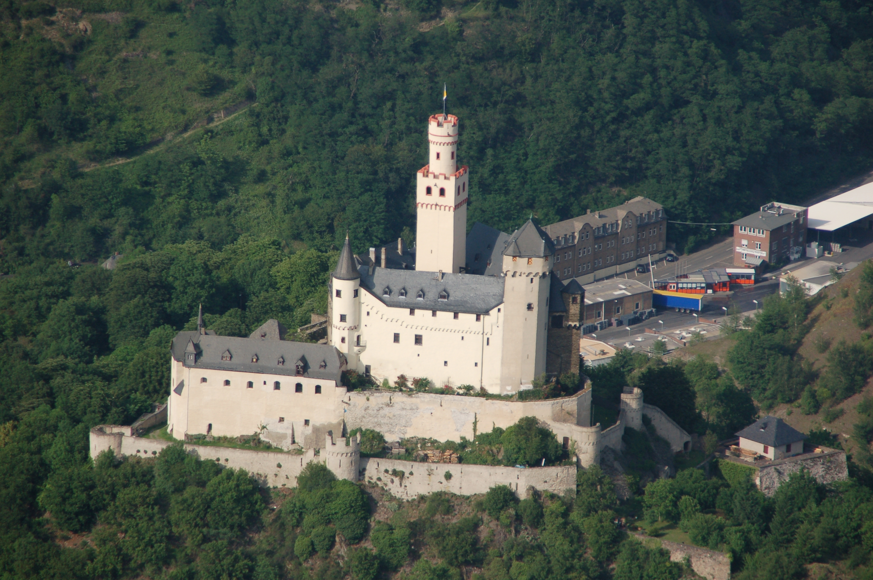 Aerial photograph of the Marksburg, Rhineland-Palatinate, Germany